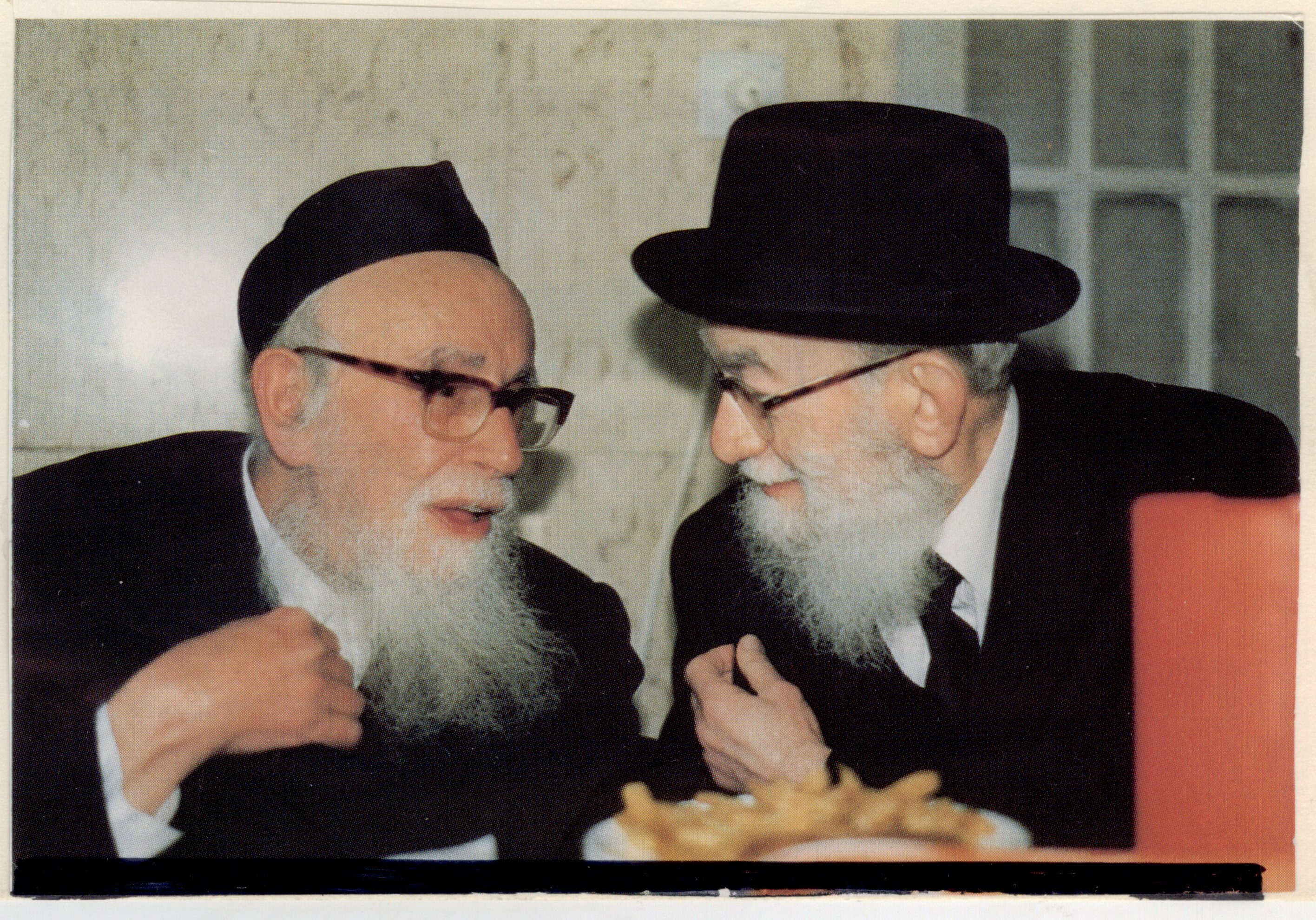 rabbi gedalia ayzman with rabbi s.z. oerbach